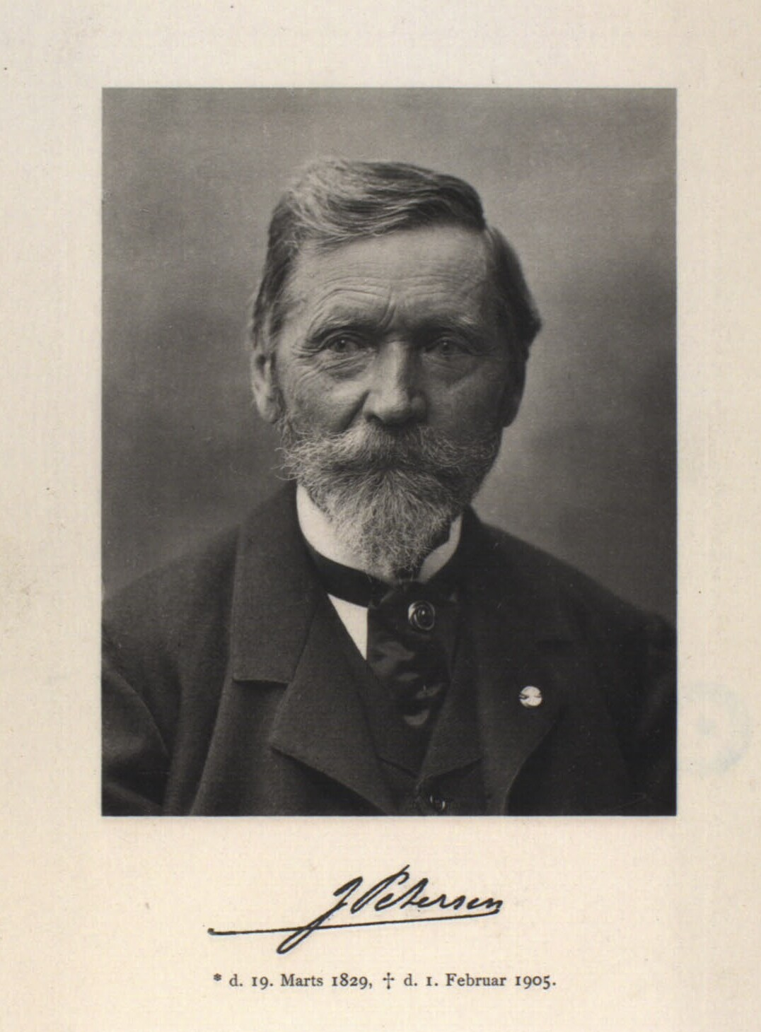 Jens Petersen (1829-1905), Danish photographer